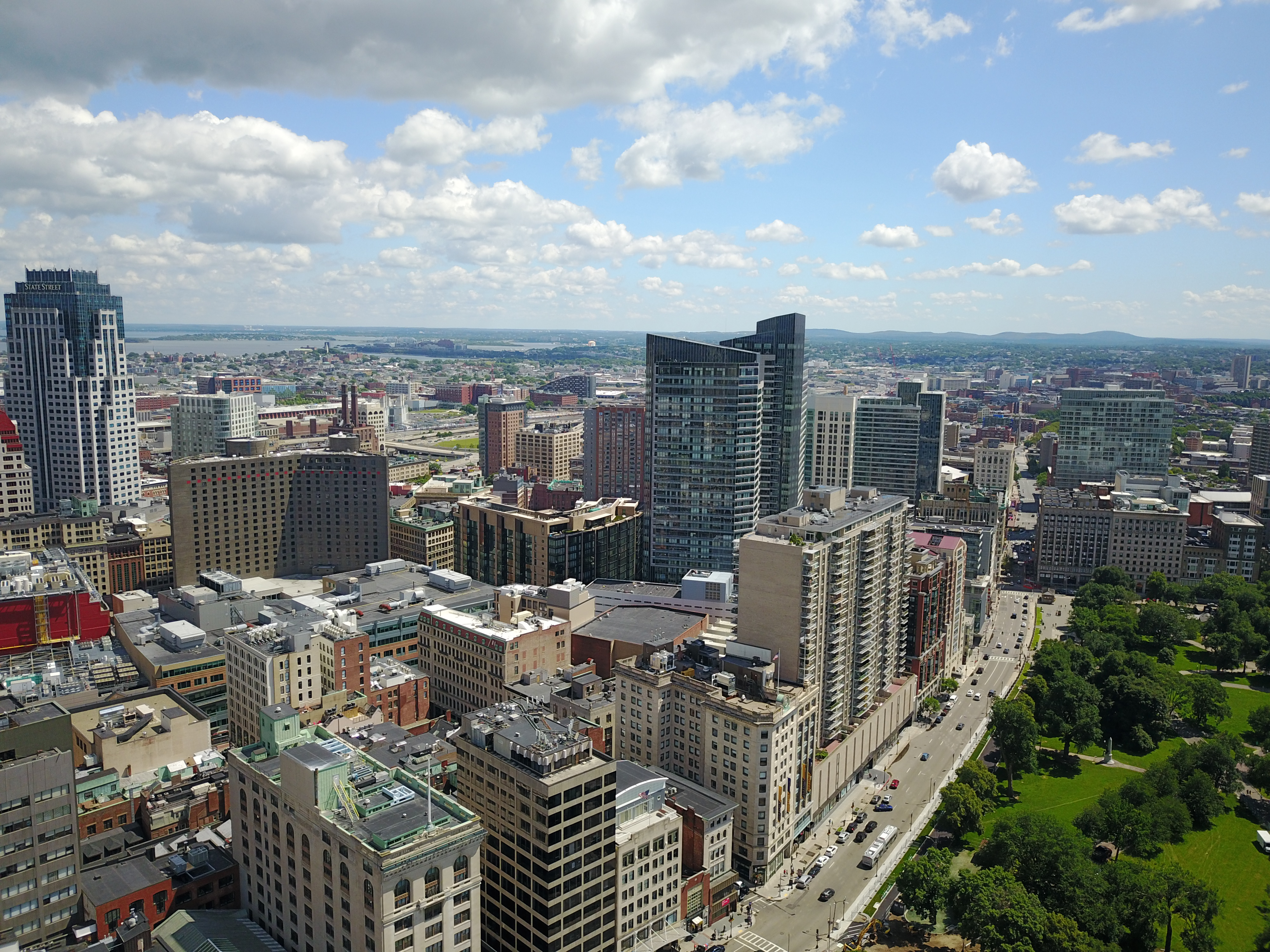 Skyline view of Boston city